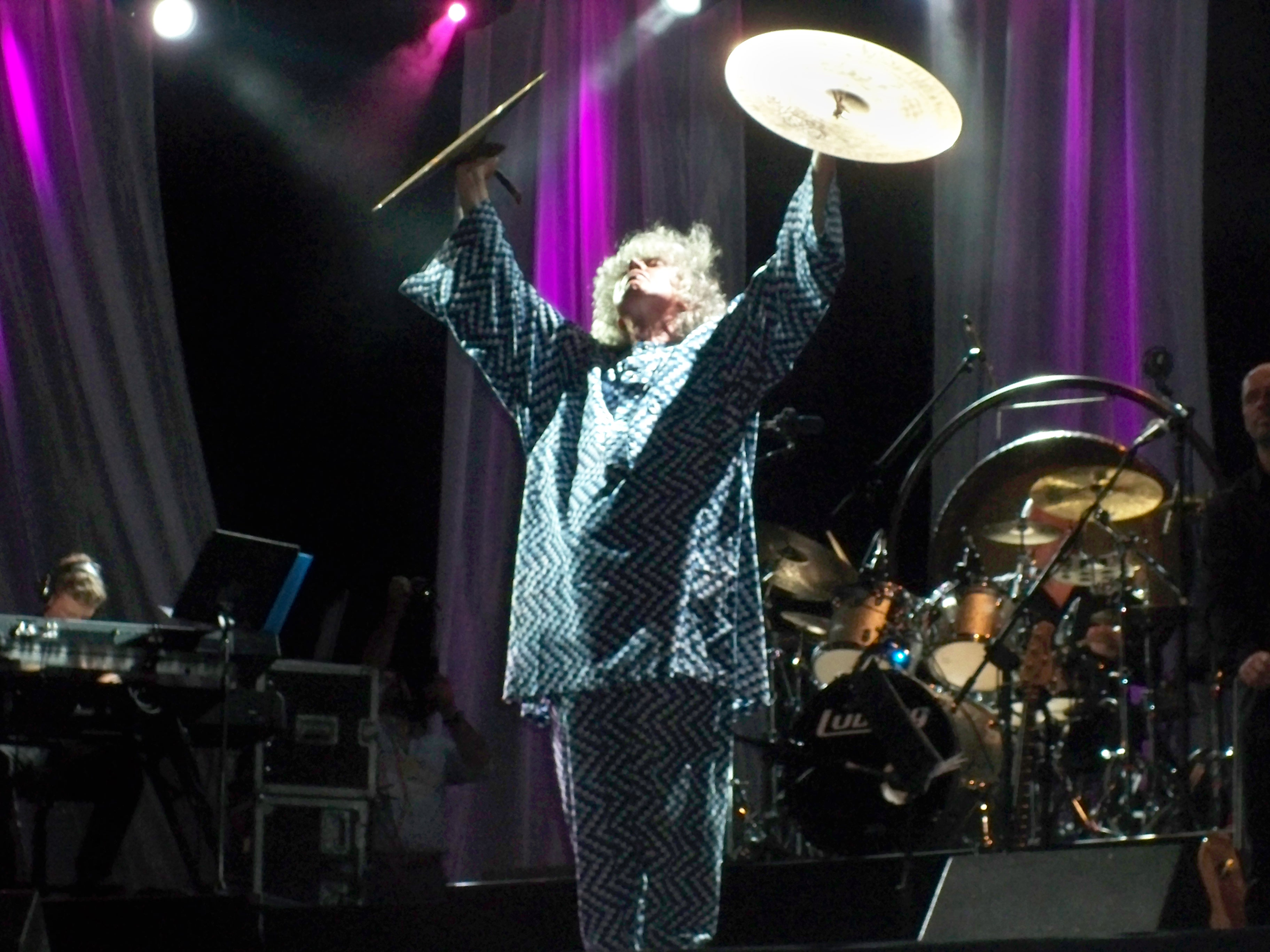 Angelo Branduardi on stage at Martignano, province of Lecce, Apulia